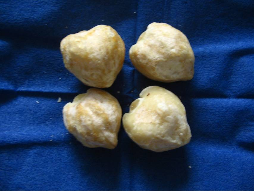 Seed of Aleurites moluccana, Candlenuts, free from seedcoat; sold form.